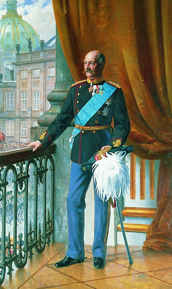 King Frederik IIX of Denmark standing on the balcony of Amalienborg Palace (Brockdorffs Palæ).